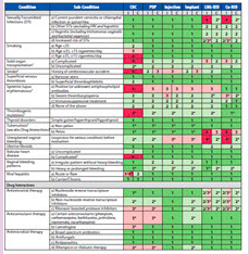 This chart summarizes the CDC recommendations regarding contraceptive use with medical conditions.